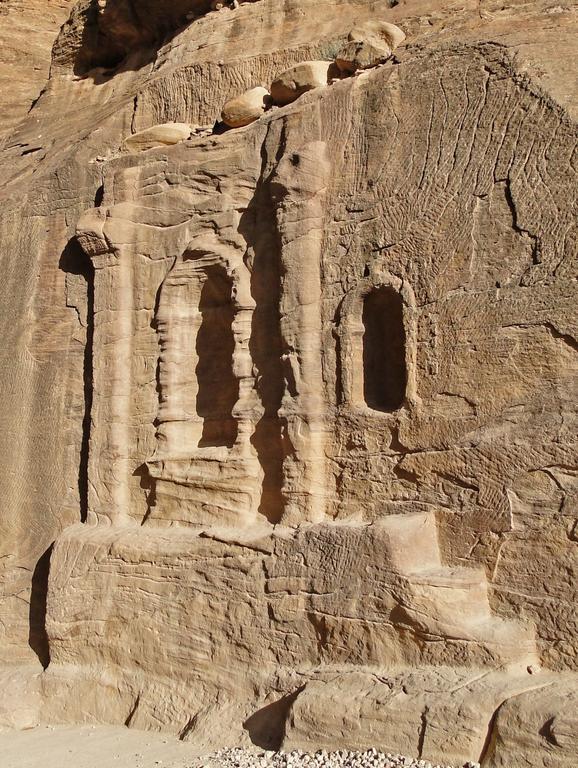 A niche near the entrance of al-Siq, Petra, Jordan